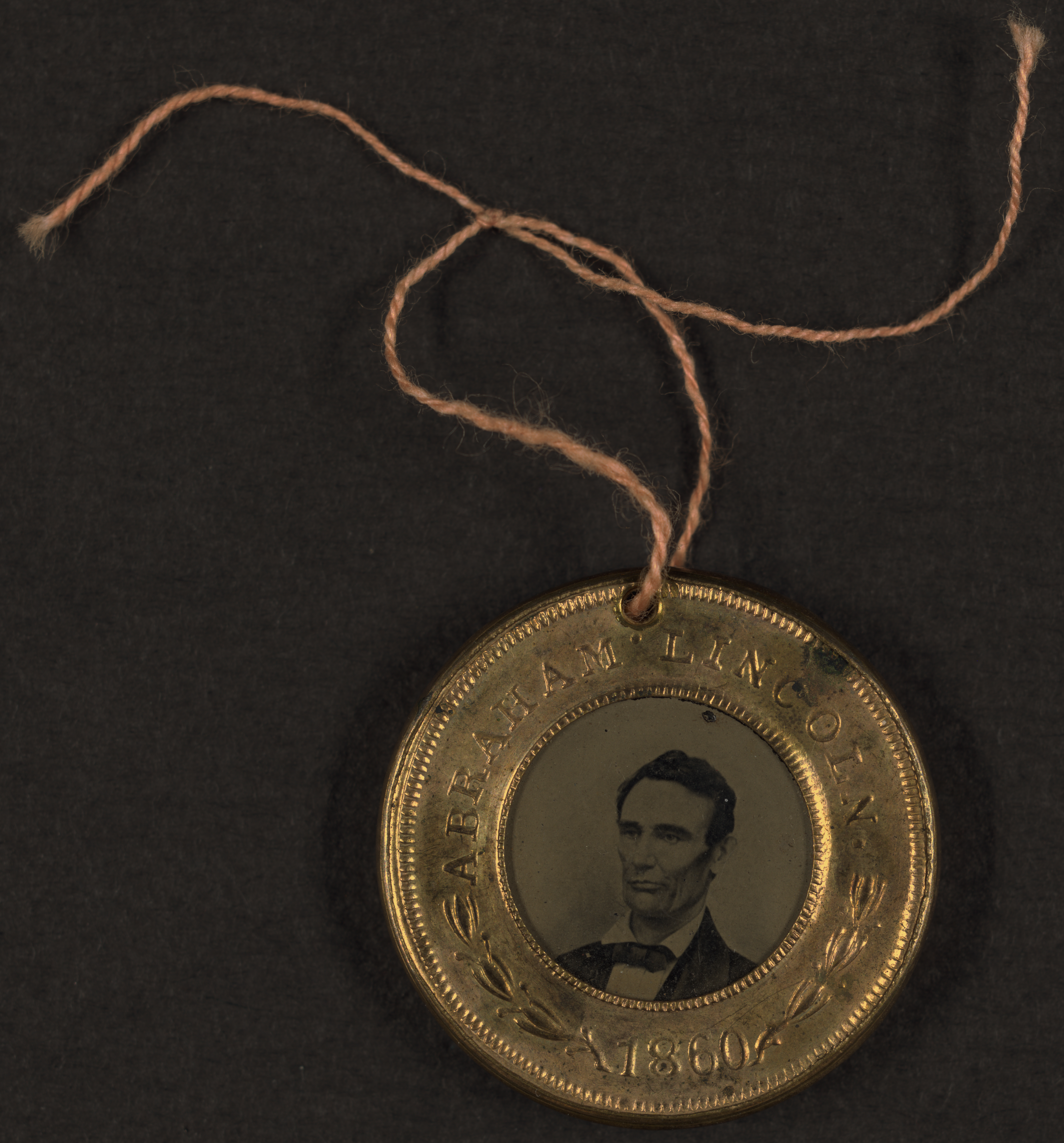 Campaign button for Abraham Lincoln, 1860. Portrait appears in tintype. Reverse side of button is a tintype of running mate Hannibal Hamlin. One of the earliest examples of photographic images on political buttons.